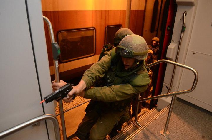 One of IDF's elite units, Yahalom or Diamond, train in tight places, such as taking over a train controlled by terrorists. Soldiers from ‘Yahalom’, are specially trained to help locate smuggling tunnels, defuse bombs and use live ammunition to fight underground. The unit trains in a facility that was modeled after the design and layout of the Gaza Strip, simulating civilian buildings under which exist an extensive tunnel maze. The Israel Defense Forces Facebook • blog • Twitter